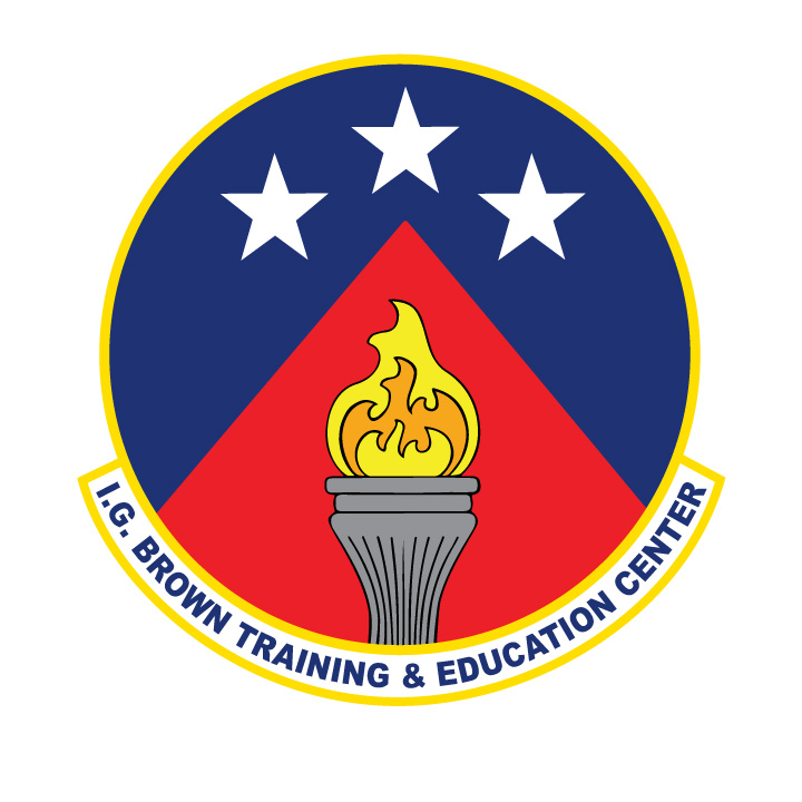 This official logo for I.G. Brown Training and Education Center replaces the previous shield, no longer in use.